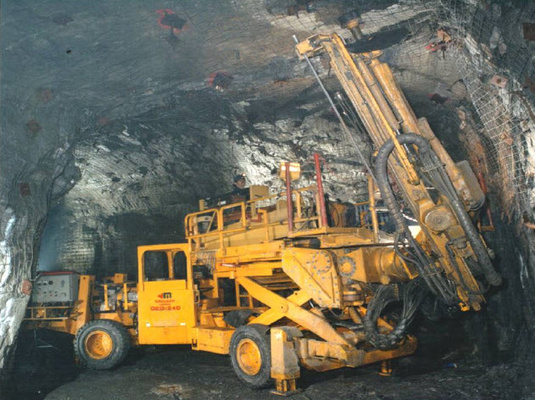 perforing